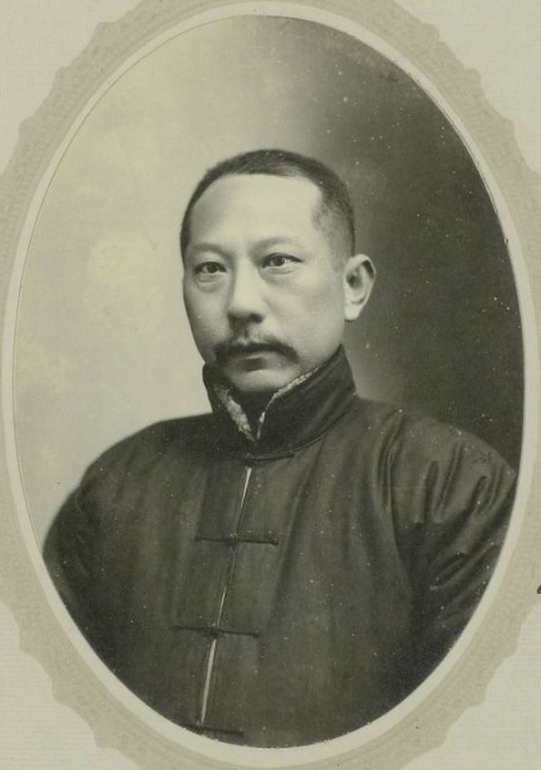 Shang Yanying, Chinese scholar.